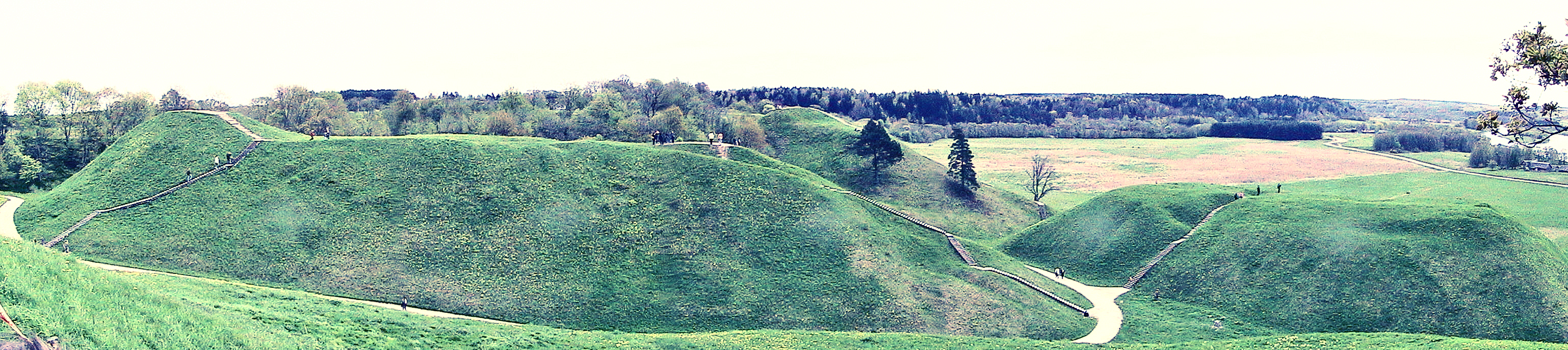 Lithuanian hill-mound in Kernavė